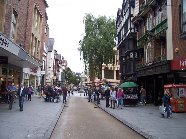 Exeter: Exeter High Street is a busy place. With shops such as Barratts, HSBC, Clinton Cards, Lakeland and a bloke selling the Express & Echo.